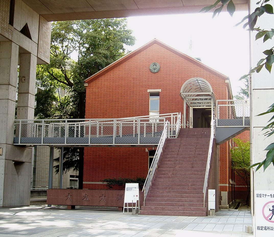 Otani University, located in Kita-ku, Kyoto, Japan.